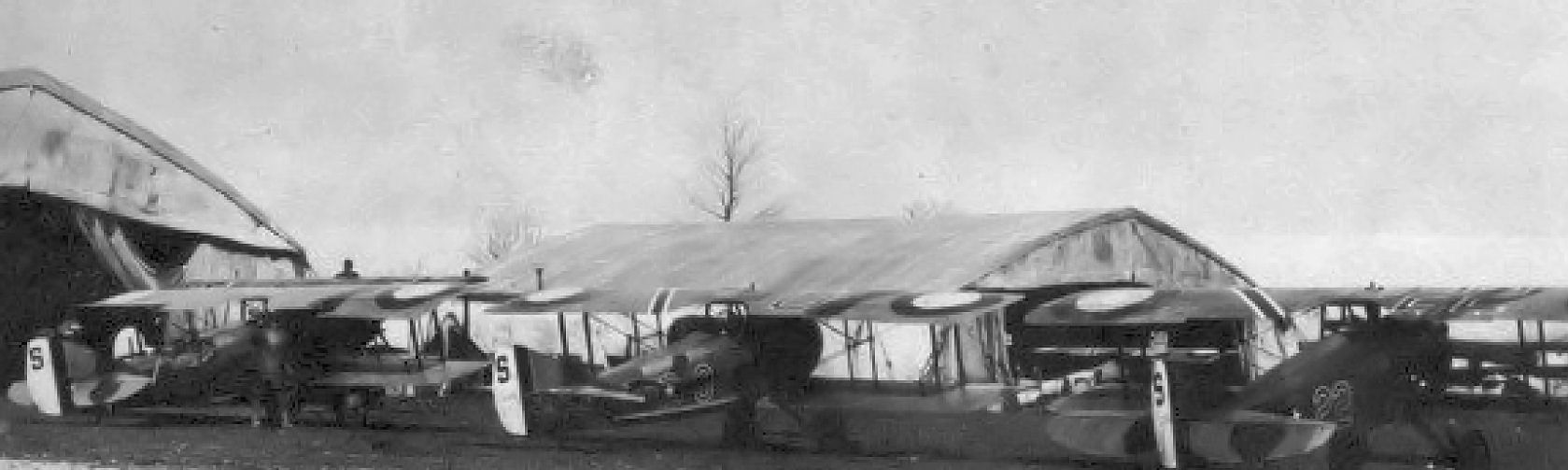 22d Aero Squadron SPAD S.XIIIs, Belrain Aerodrome, France.